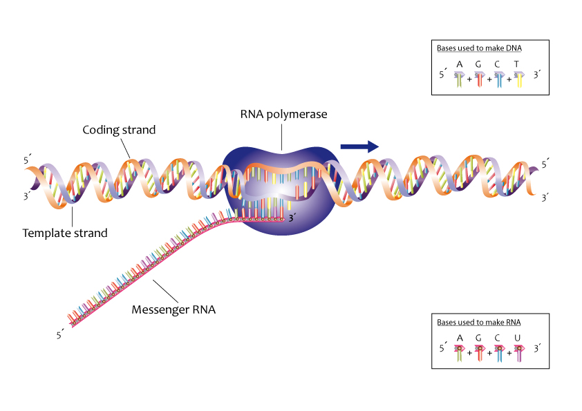 This image was created by the NHS National Genetics and Genomics Education Centre. For further information and resources please visit our website